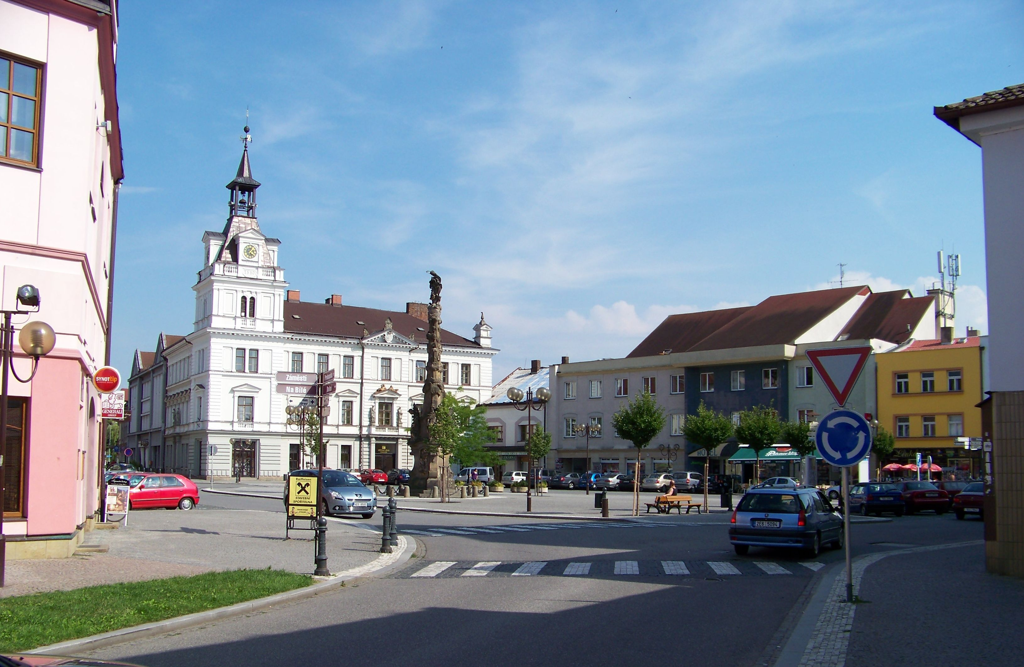 Choceň, Ústí nad Orlicí District, Pardubice Region, the Czech Republic. Tyrš Square, a square roundabout.